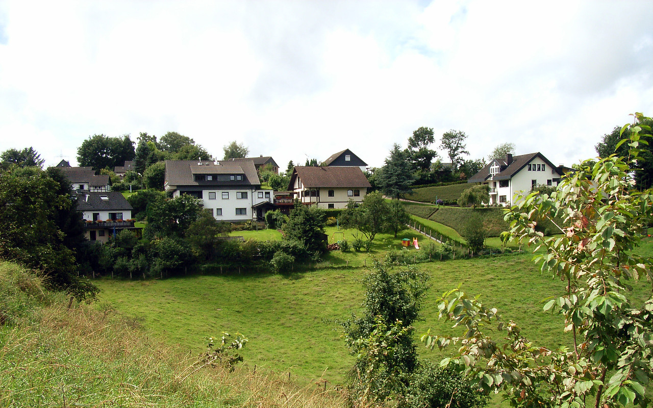 view of Ohmig, district of Gummersbach, North Rhine-Westphalia, Germany